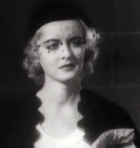 Cropped screenshot of Bette Davis from the film Hell's House.